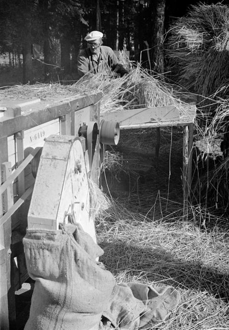 Threshing machine.